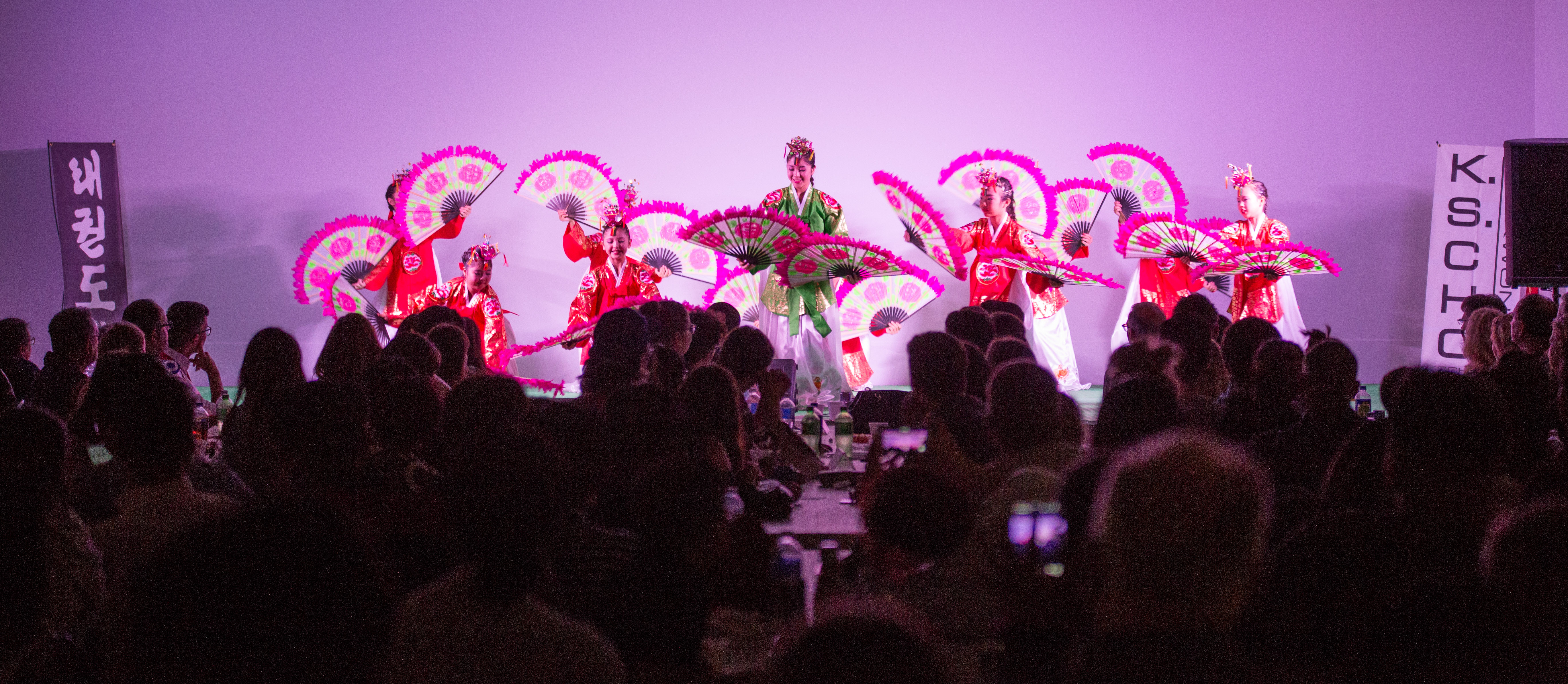 Korean Pavilion 2017